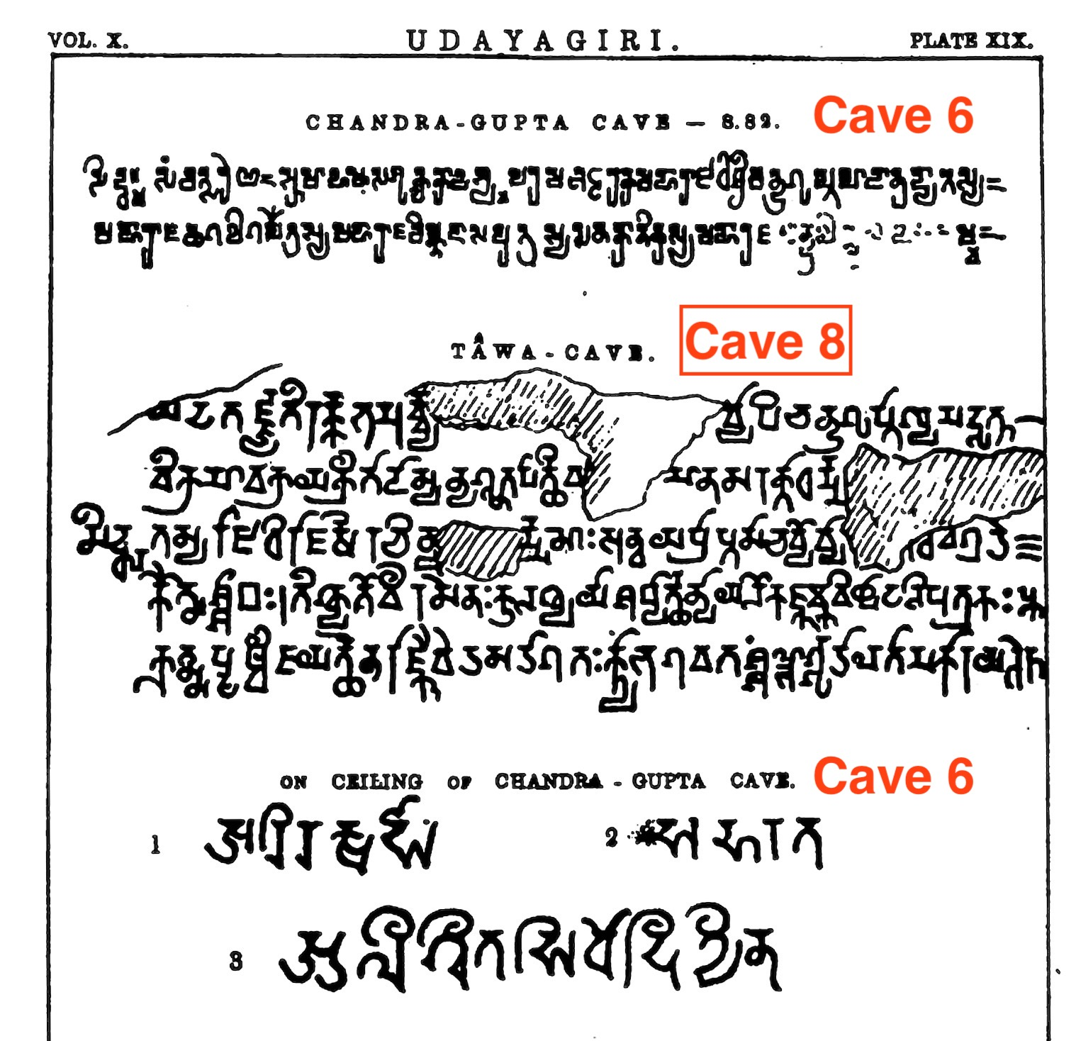 Gupta Empire era inscriptions, two from Cave 6 and one from Cave 8. These help establish the date of the cave and Hindu temples near Vidisha, Madhya Pradesh. This is derivative work on wikimedia commons file: 1st - 5th century Udayagiri inscriptions Hindu caves, Madhya Pradesh India, published in 1880.png To verify: Alexander Cunningham (1880)